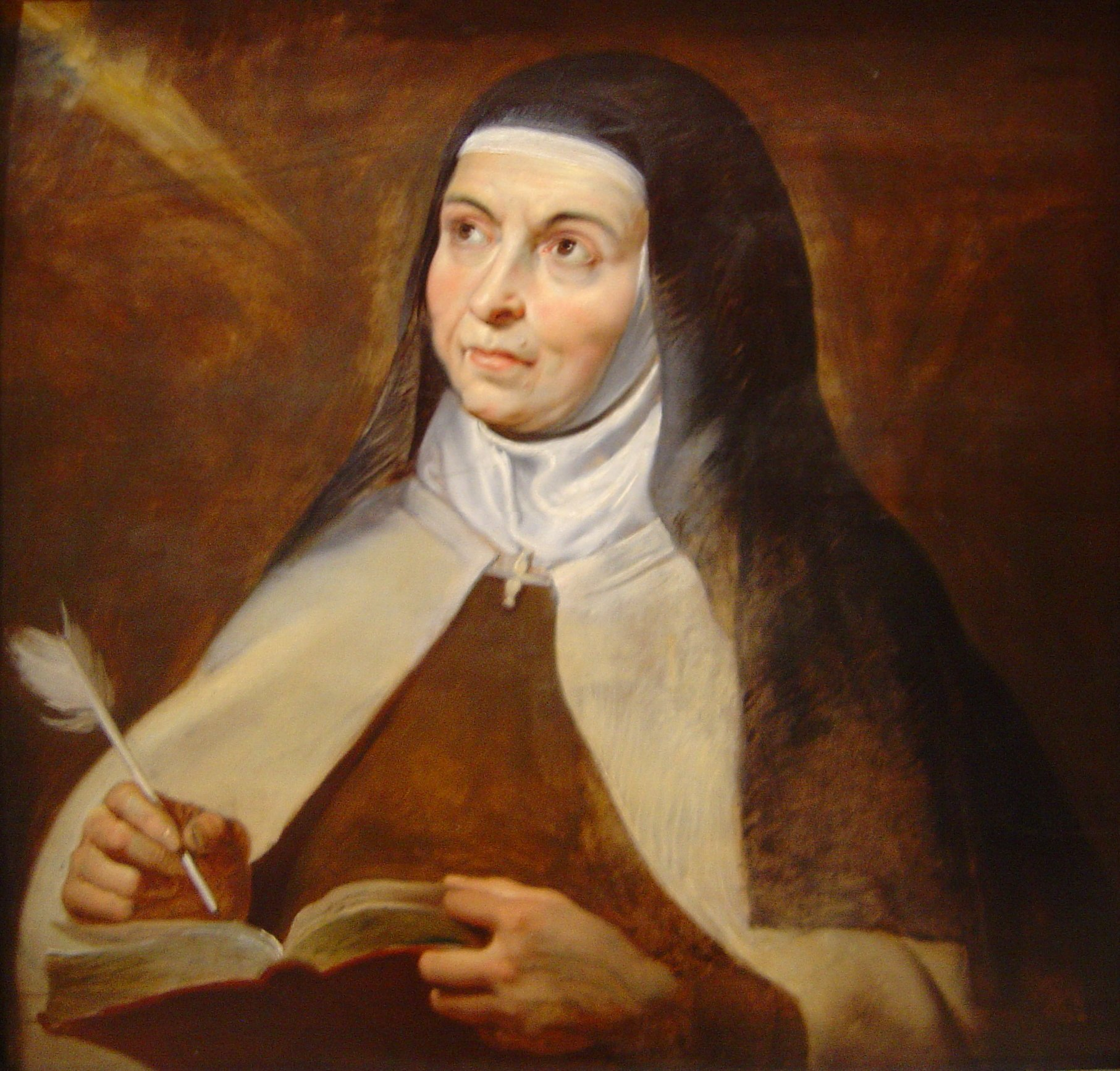 Teresa of Ávila, Ulm, Germany(Tried to remove some distortion.)